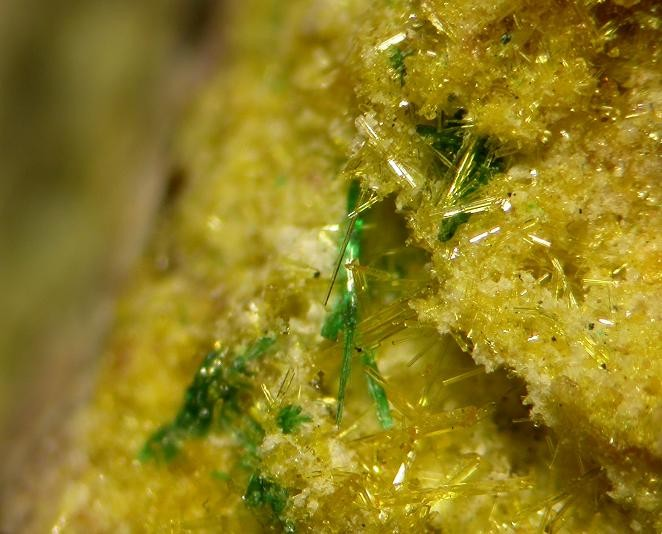 Sklodowskite Locality: Shinkolobwe Mine (Kasolo Mine), Shinkolobwe, Central area, Katanga Copper Crescent, Katanga (Shaba), Democratic Republic of Congo (Zaïre) (Locality at ) Yellow acicular xls of Sklodowskite. Field of view 5 mm. Specimen and photo Leon Hupperichs.